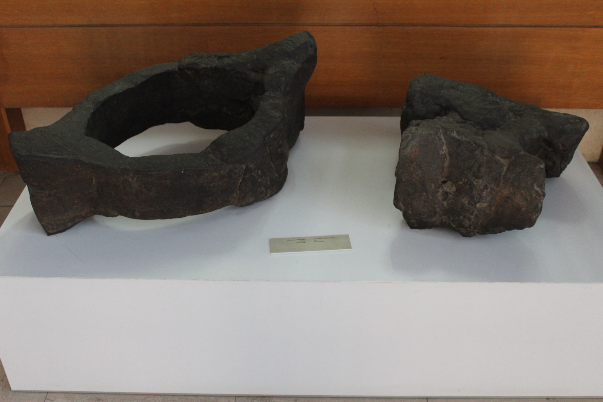 Samokov, 18th century. Iron, Crna Trava. Srpski (latinica): Samokov, XVIII vek. Gvožđe, Crna Trava.